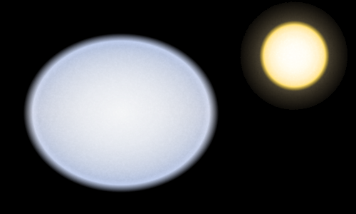 This illustration compares the rapidly rotating Vega (left) to the smaller Sun (right).